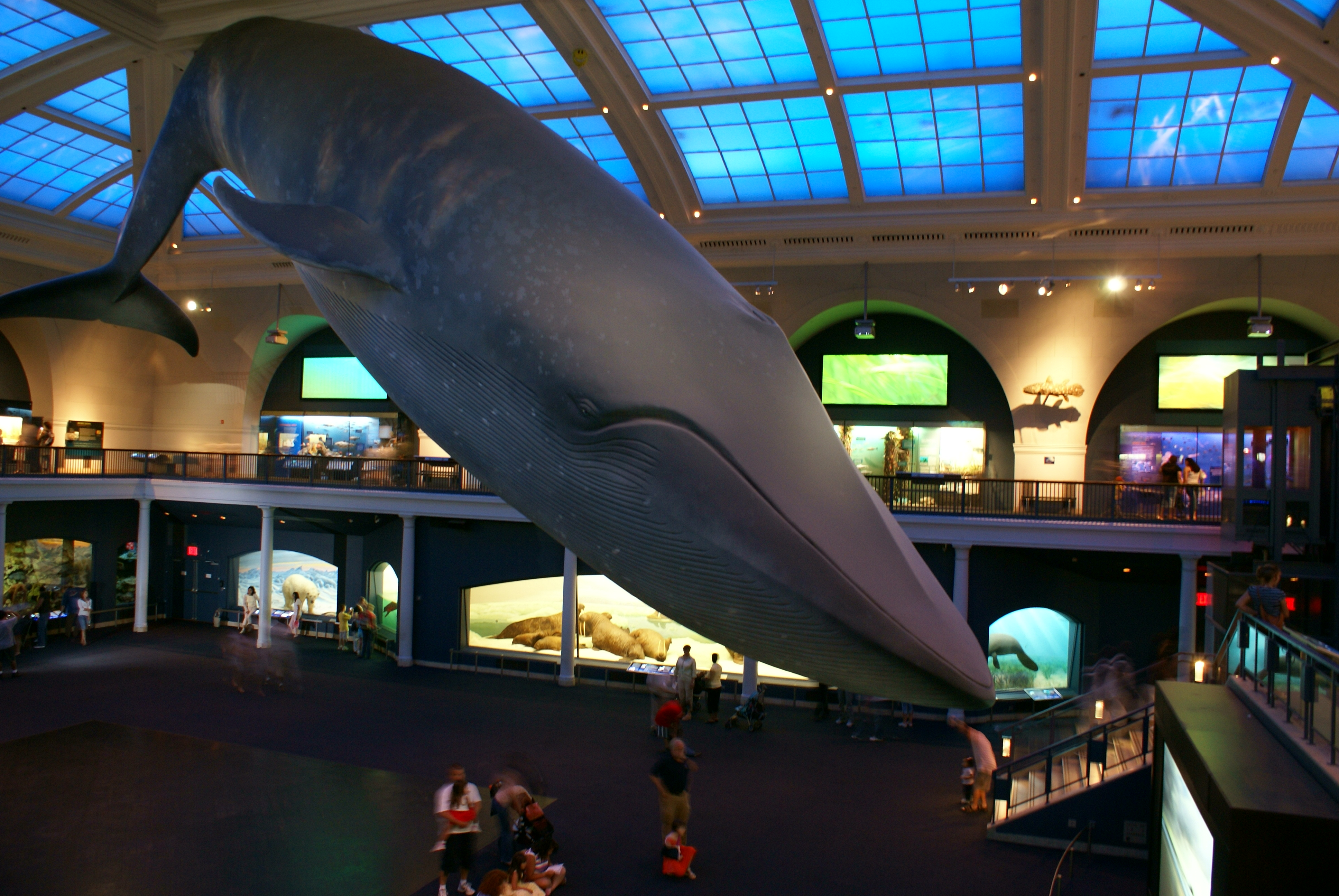 The full-size model of a Blue Whale suspended in the Milstein Family Hall of Ocean Life in the American Museum of Natural History, New York.